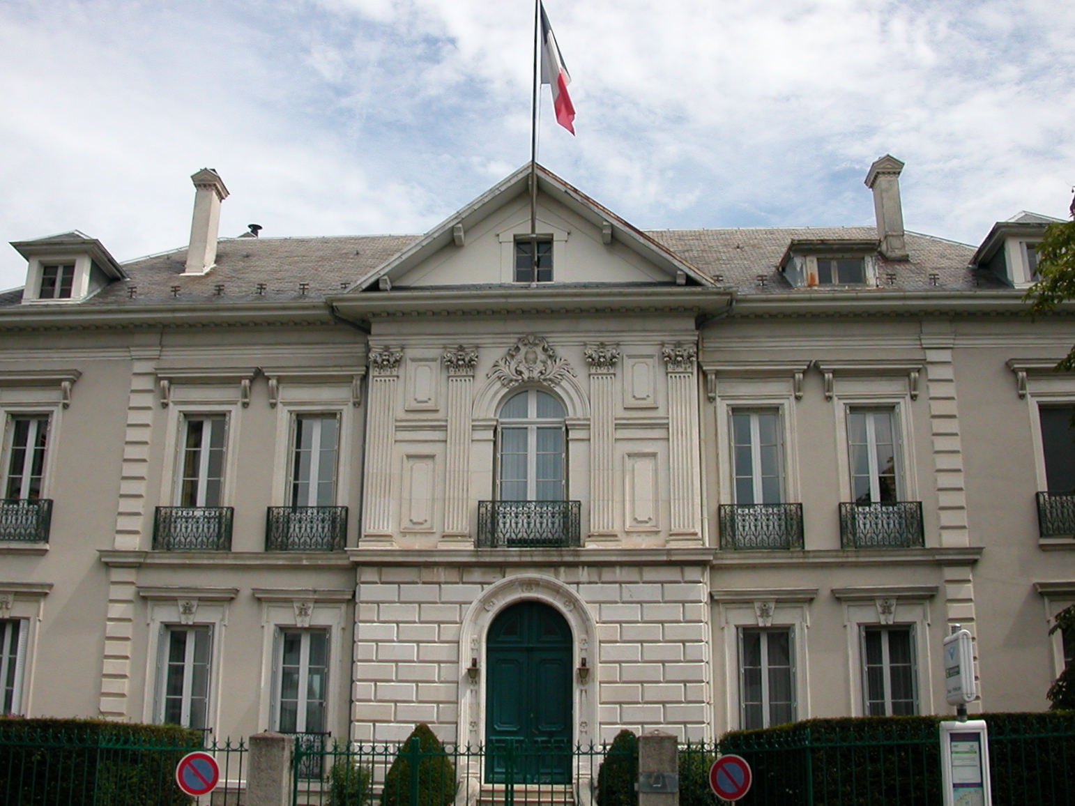 Subprefecture of Thonon-les-Bains